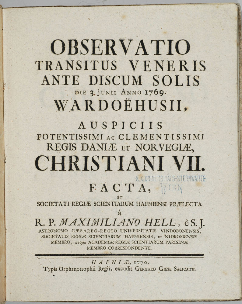 Maximilian Hell: "Observatio transitus Veneris ante discum Solis", 1770